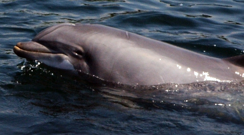 A Bottlenose Dolphin. Photo by User:BabyNuke, taken in 2005.